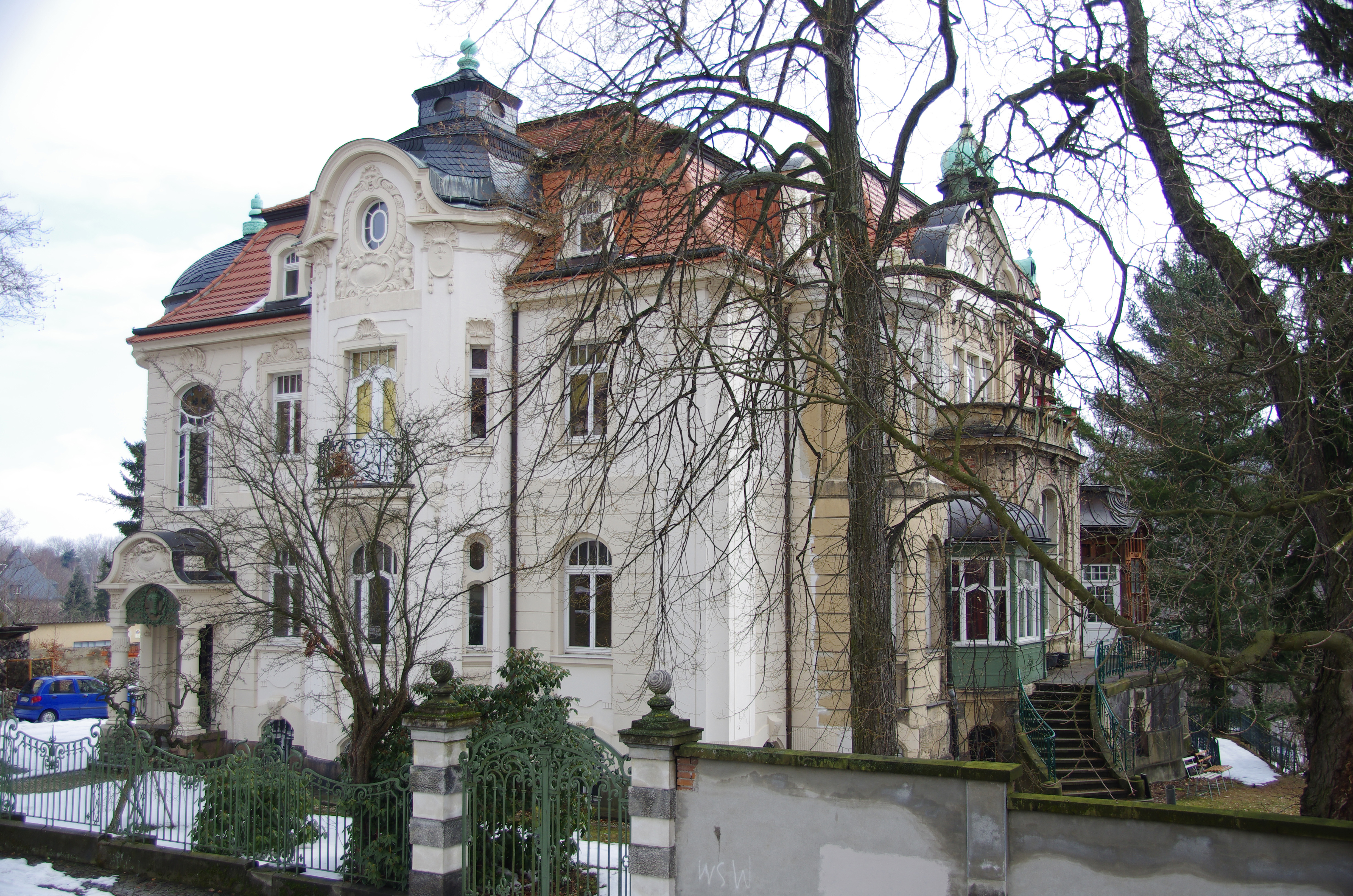 Villa Brueckner in Loebau, Saxony